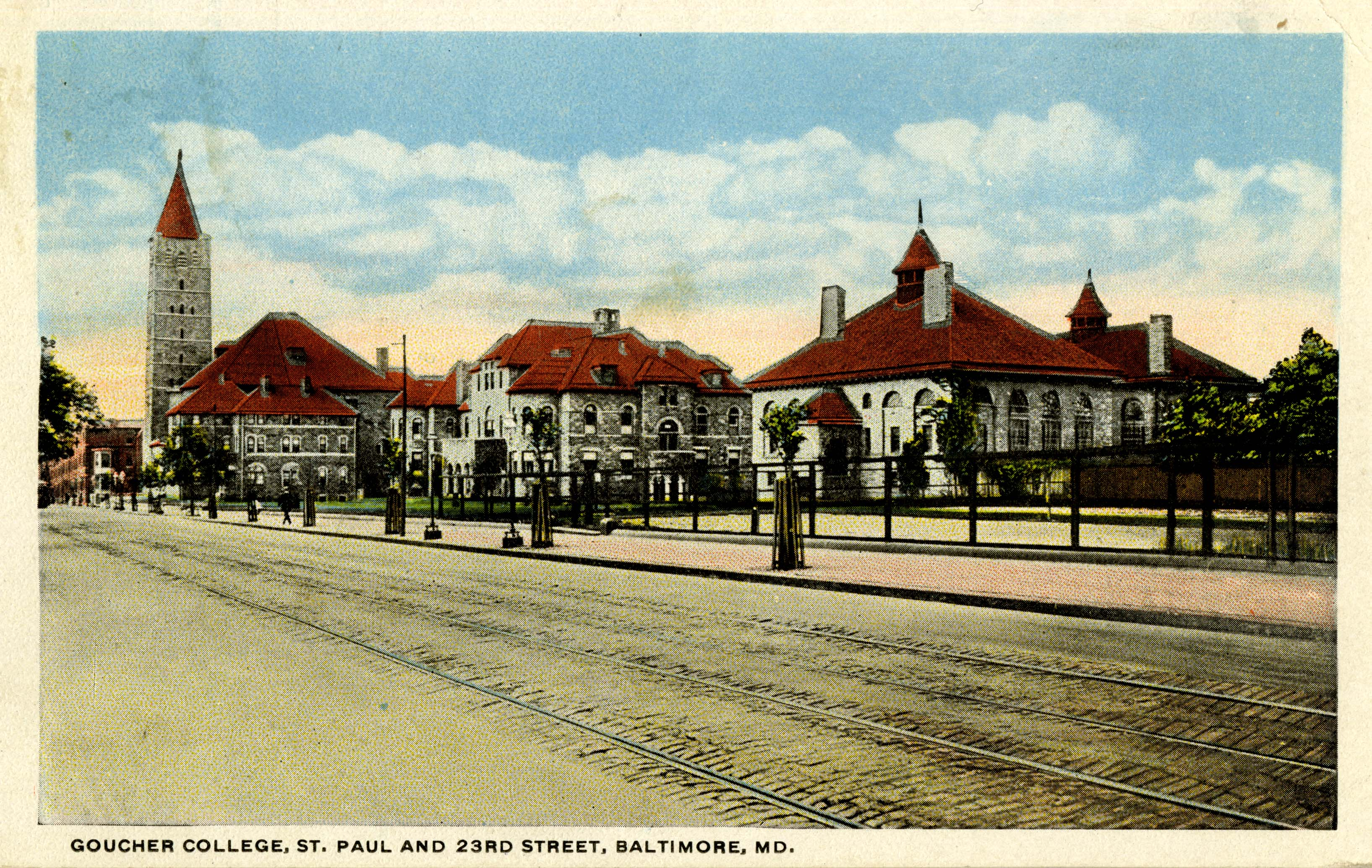 A postcard depicting Goucher College's original campus in Baltimore, MD